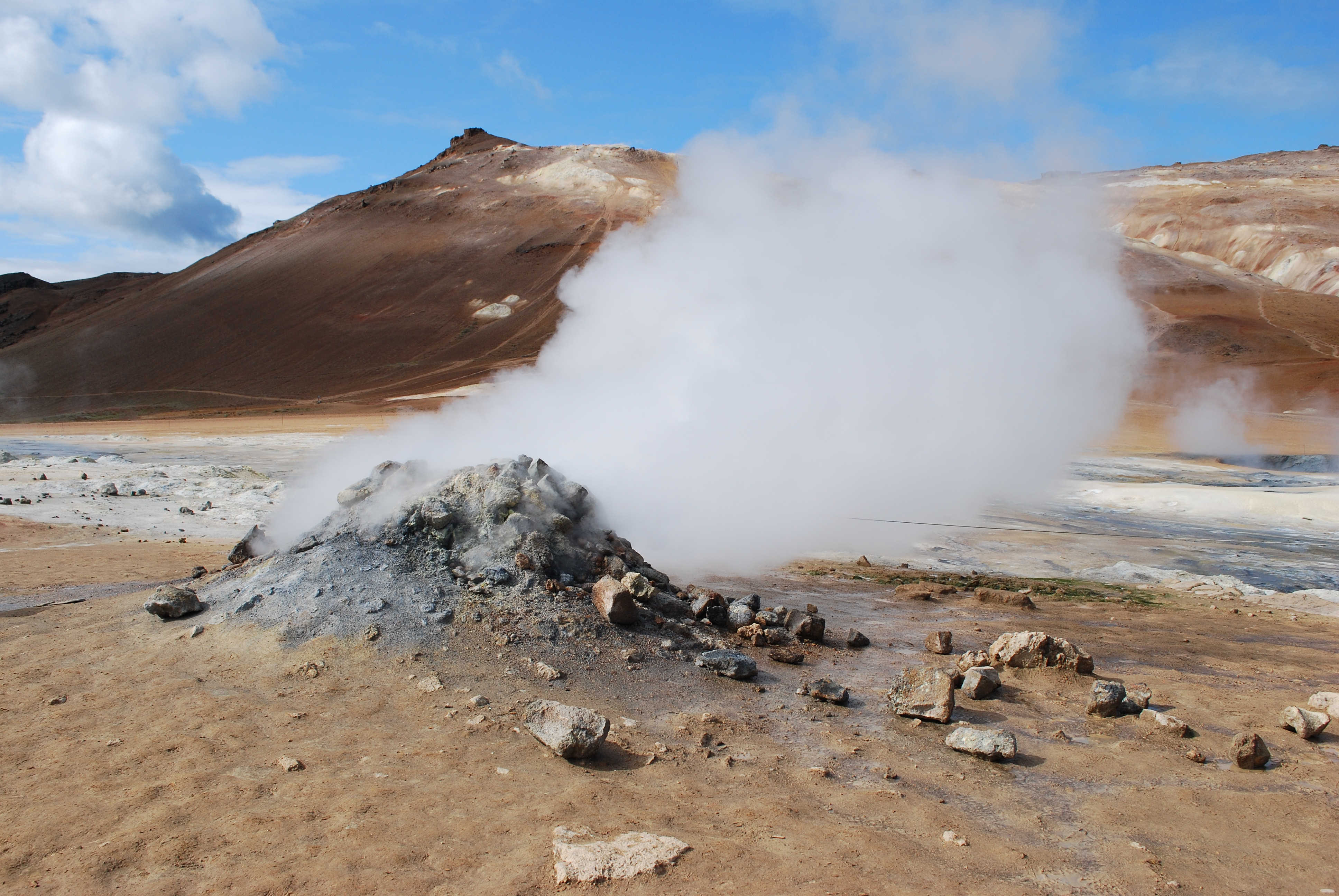 Geothermal area Námafjall near Mývatn Lake, Iceland. Smoking fumarole.